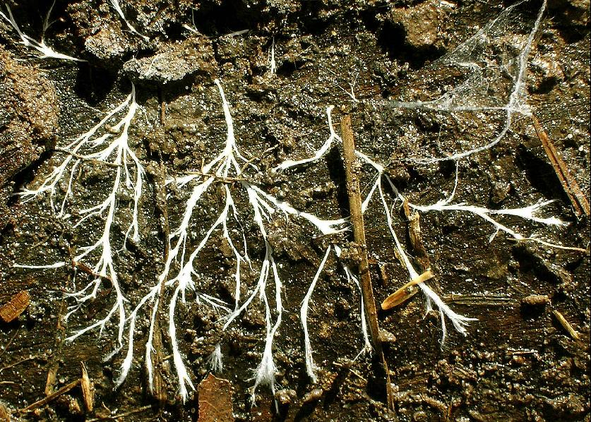 Hyphae as seen under an overturned log.